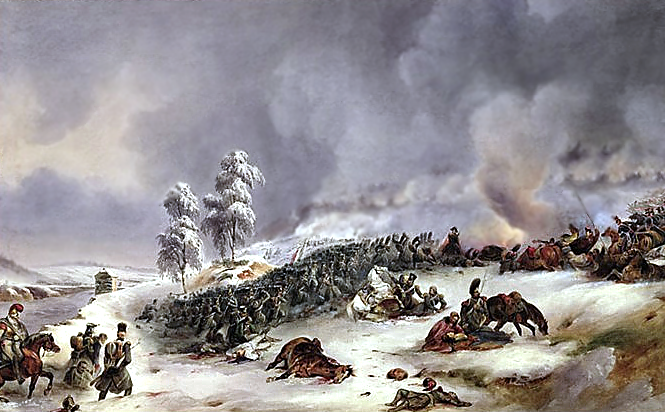 Battle of Krasnoi 1812, November 18th